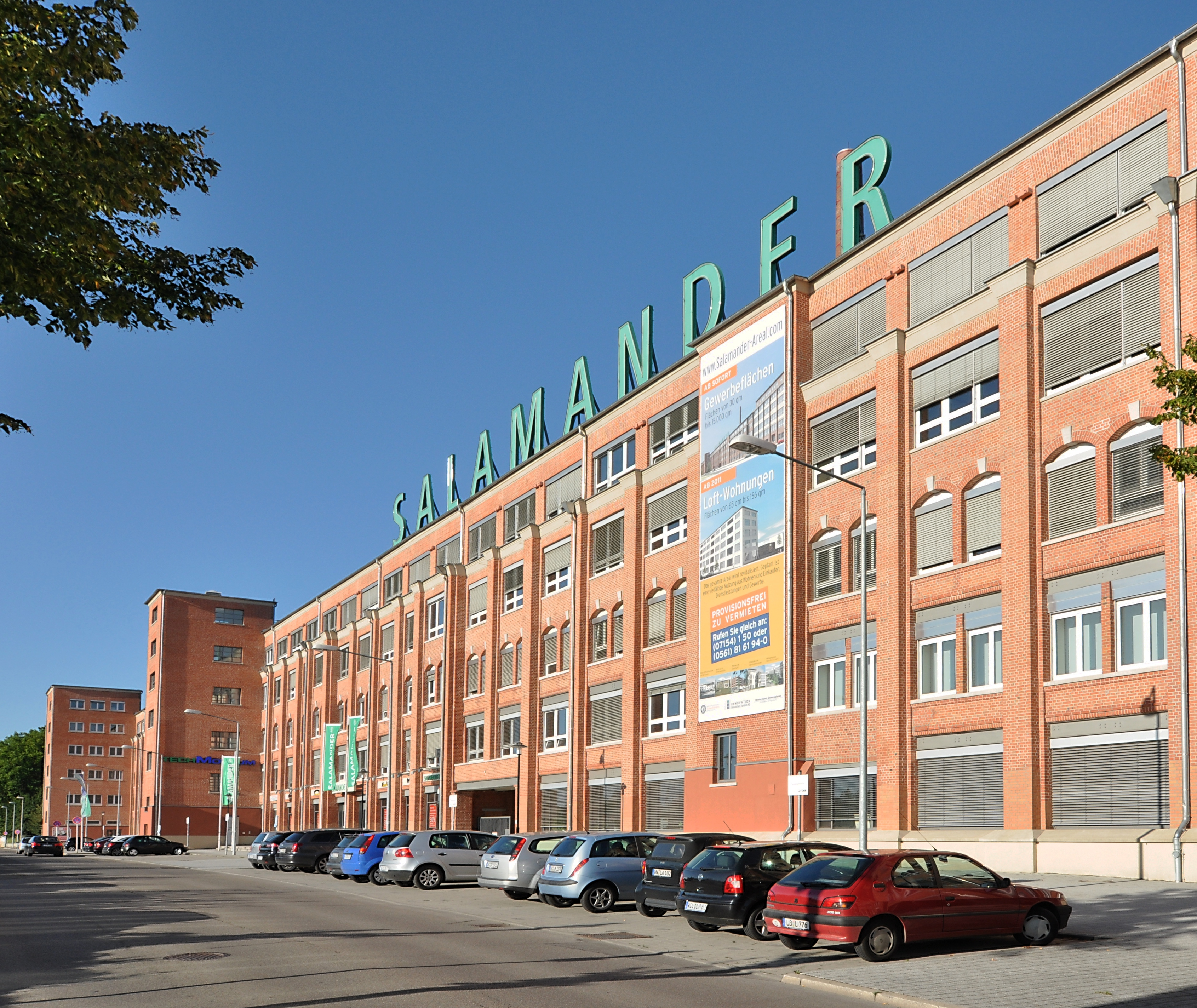 Kornwestheim, main facade of the Salamander building complex